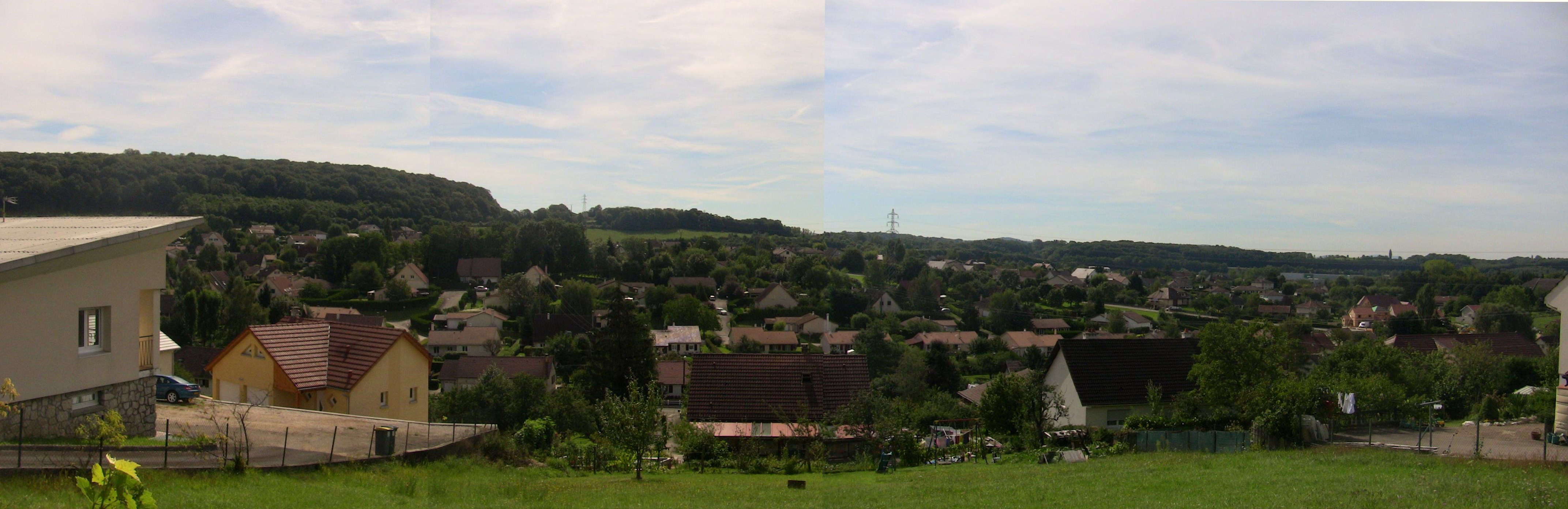 The village of Miserey-Salines, near Besançon (Doubs, France).